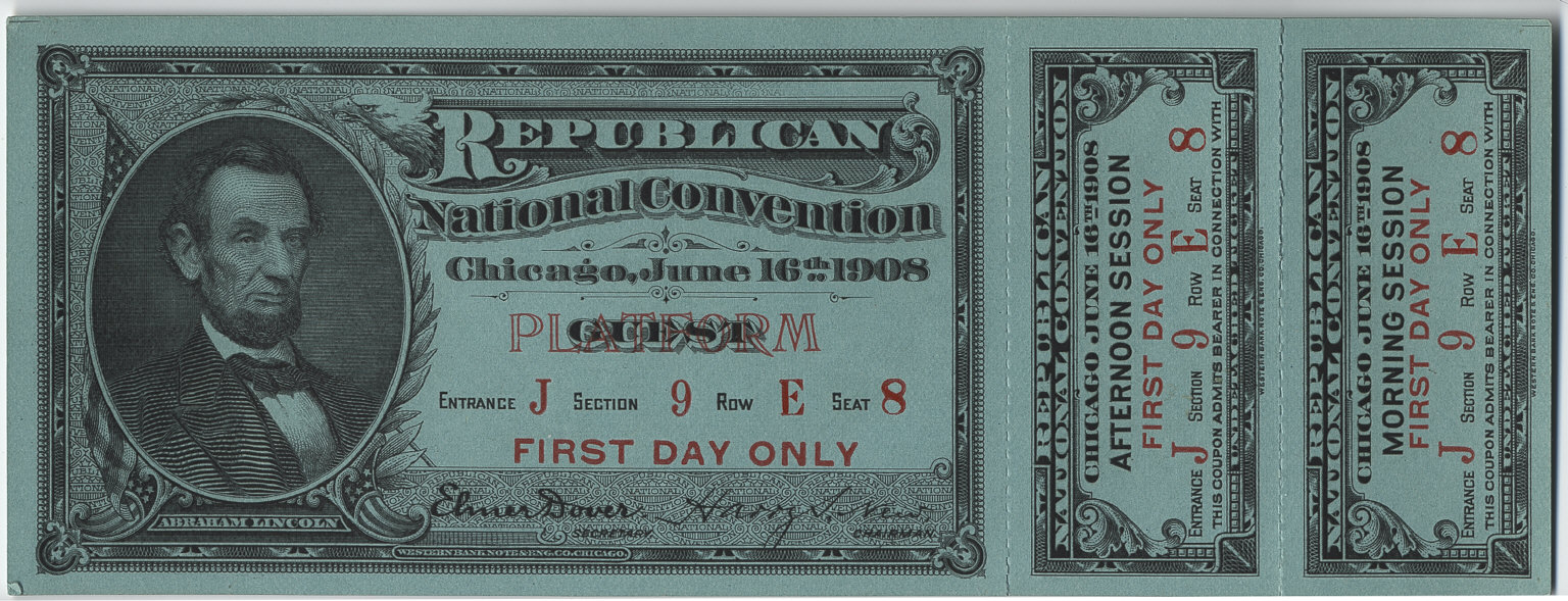 Collection: Cornell University Collection of Political Americana, Cornell University Library Repository: Susan H. Douglas Political Americana Collection, #2214 Rare & Manuscript Collections, Cornell University Library, Cornell University Title: 1908 Republican National Convention Admission Ticket Political Party: Republican Election Year: 1908 Date Made: 1908 Measurement: Ticket with 2 stubs: 2 3/4 x 7 1/4 in.; 6.985 x 18.415 cm Classification: Ephemera Persistent URI: There are no known U.S. copyright restrictions on this image. The digital file is owned by the Cornell University Library which is making it freely available with the request that, when possible, the Library be credited as its source.